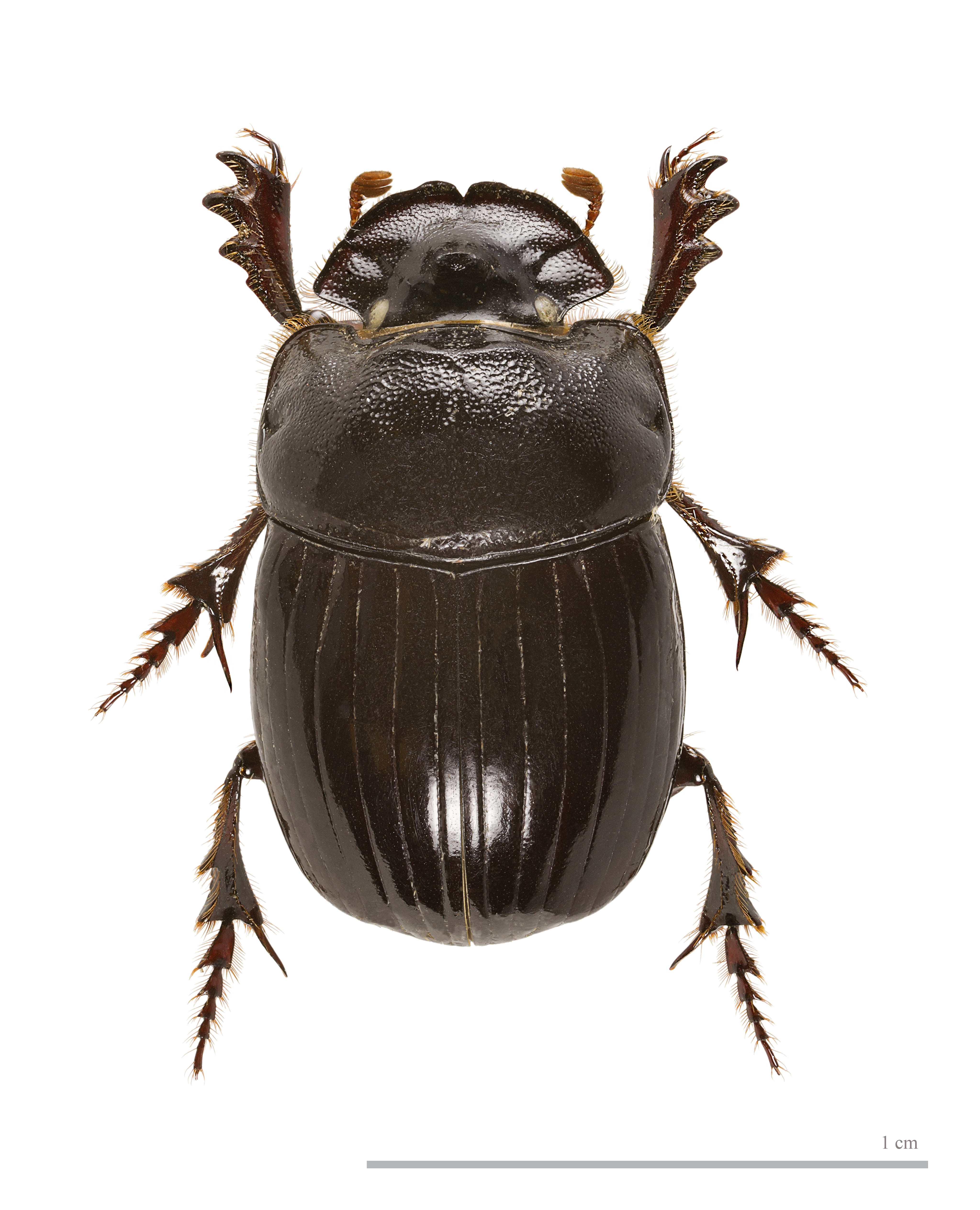 ♀ - Dorsal side Locality: Carbonnel, Rieux-de-Pelleport, Ariège, France